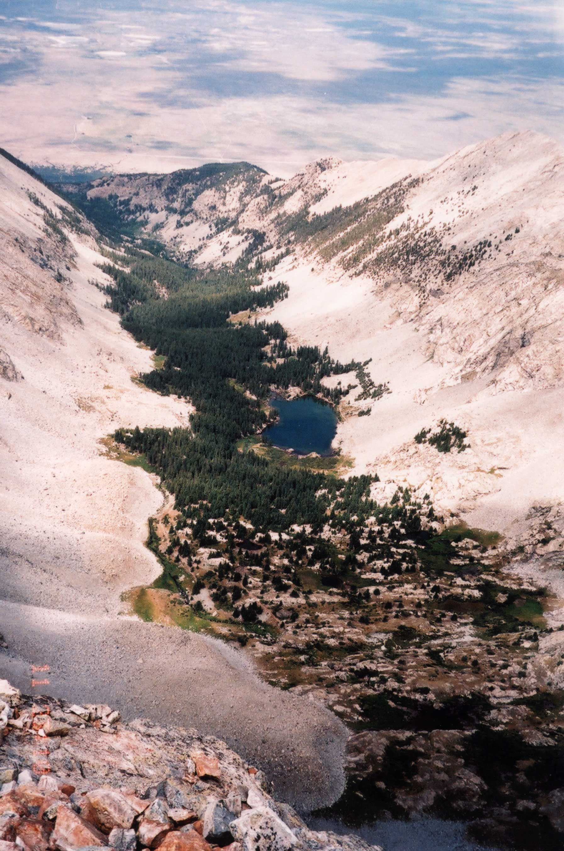 I took this photo of the valley around Lake Como from the summit of Little Bear Peak. Notice all the talus along the sides of this glacier-carved valley.